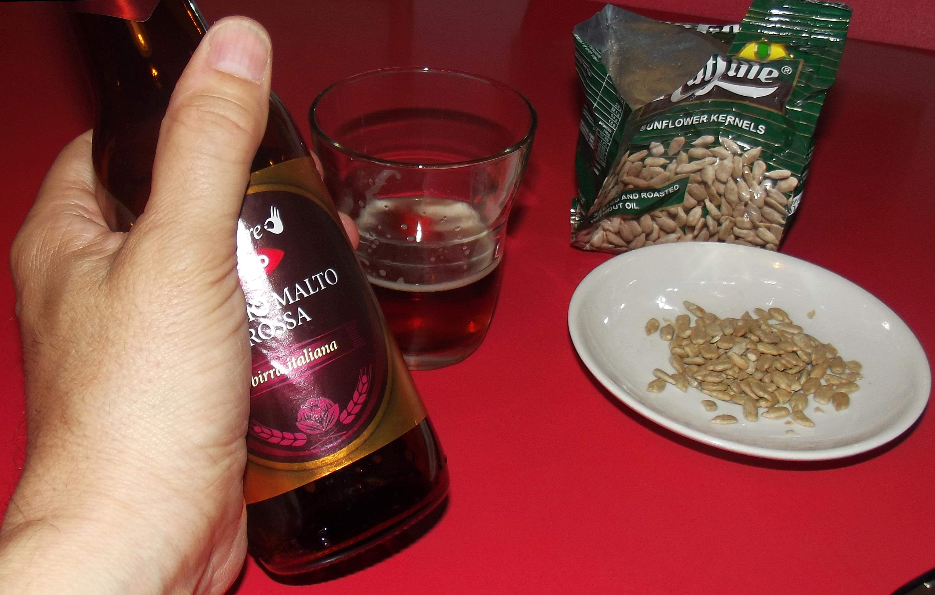 Roasted and salted sunflower seeds and red beer